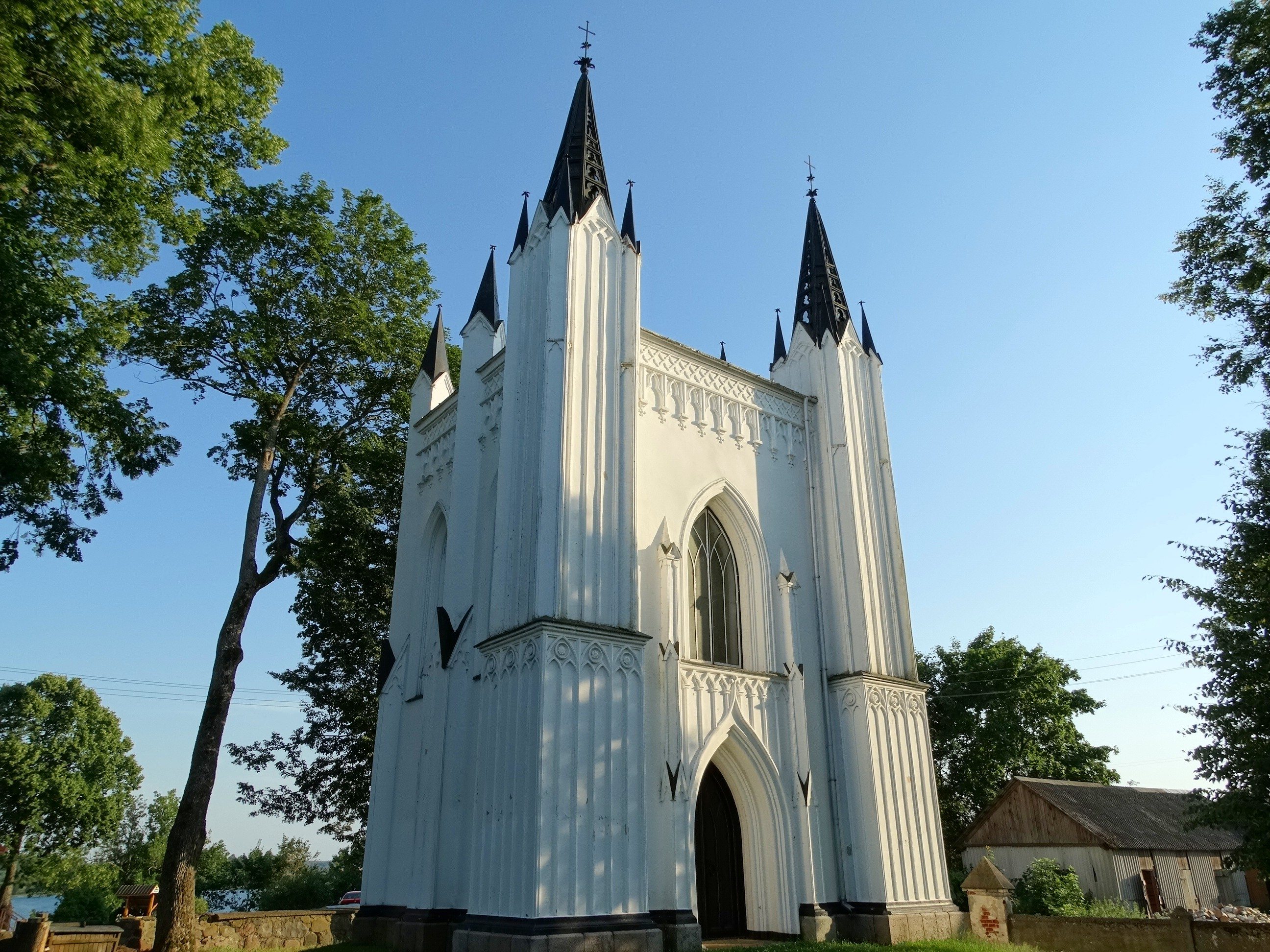 Chapel built by earl Liucijonas Marikonis, Svėdasai, Lithuania